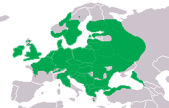 Distribution of Triturus vulgaris, based on Nöllert/Nöllert: "Die Amphibien Europas"